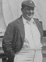 Warwick Armstrong, Australian cricketer